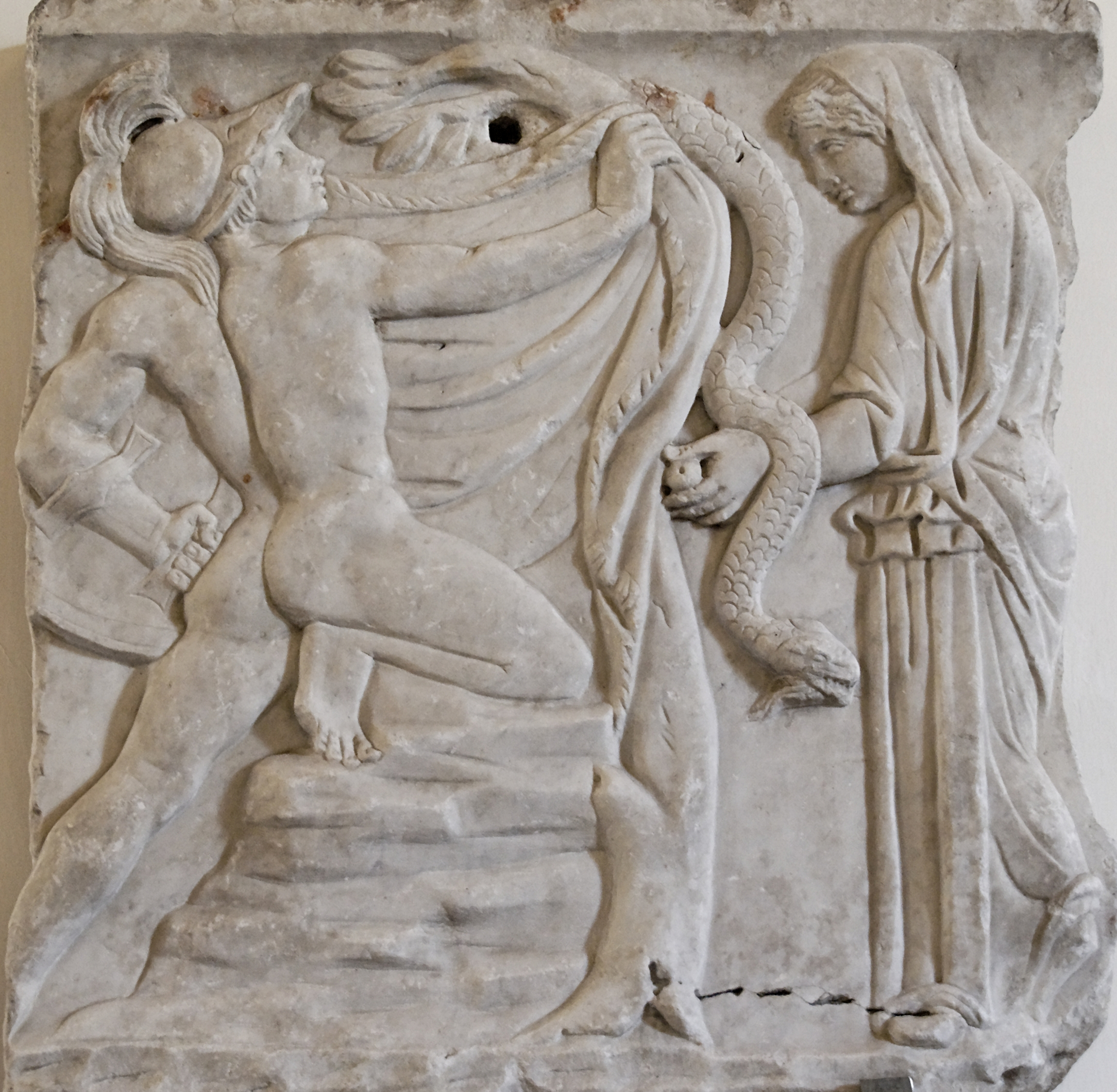 Jason seizing the Golden Fleece, fragment of a sarcophagus. Luni marble, Roman artwork, second half of the 2nd century AD.